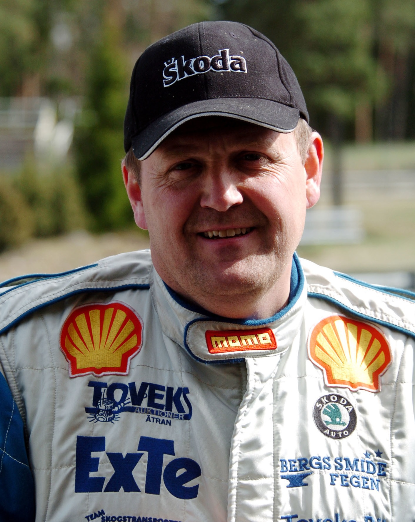 Swedish rallycross driver Lars "Lasse" Larsson, two-time FIA European Rallycross Champion.